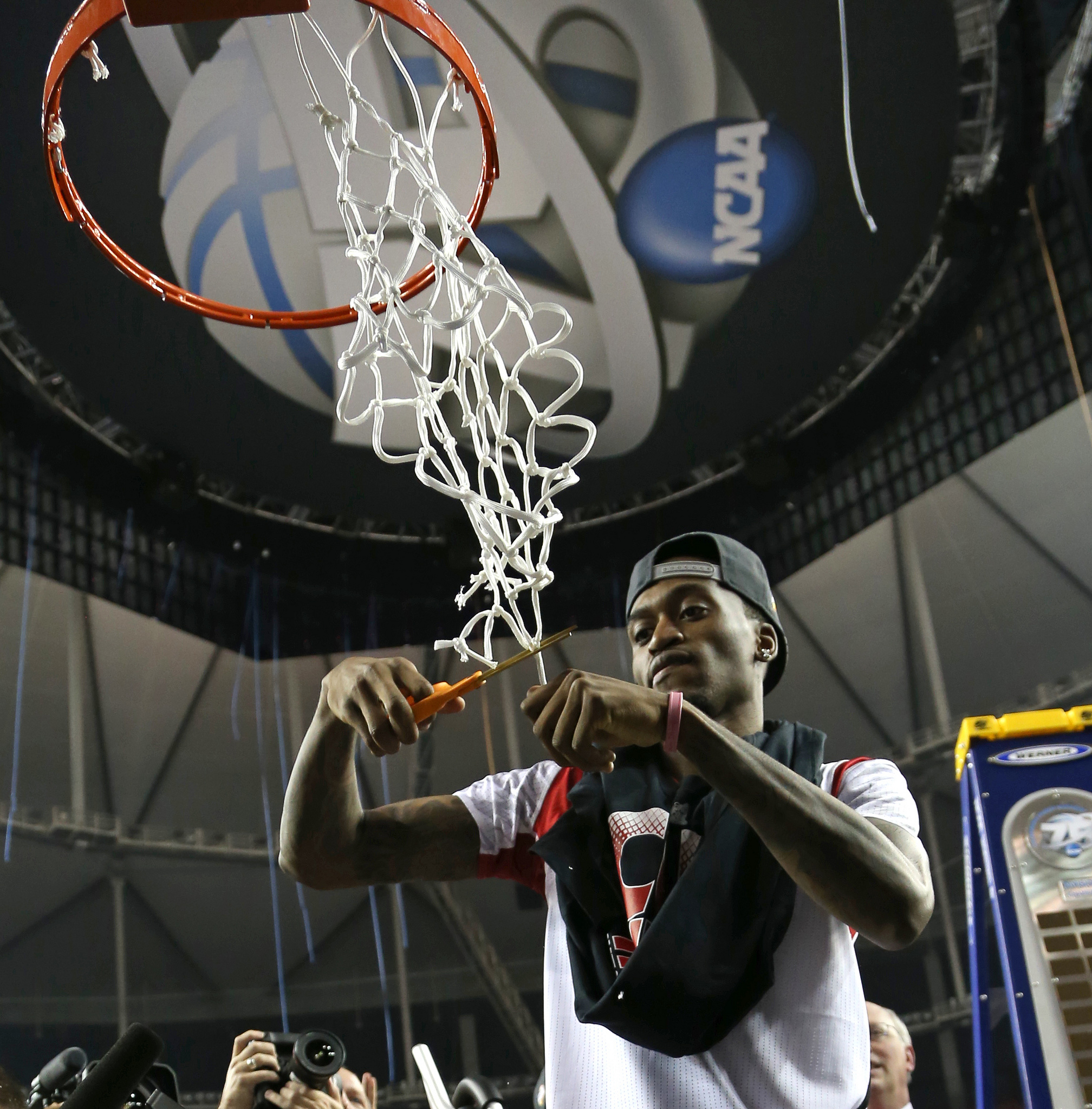 Injured University of Louisville basketball player Kevin Ware cuts the net after Louisville's victory in the 2013 NCAA Men's Division I Basketball Championship game.